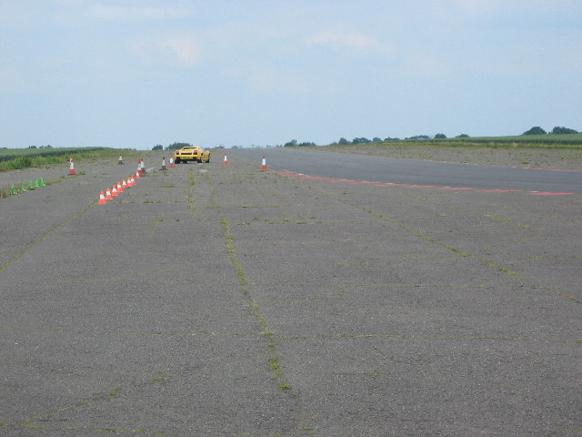 Wymeswold disused airfield. This is now been converted into a race track and is used for sports car experiences.